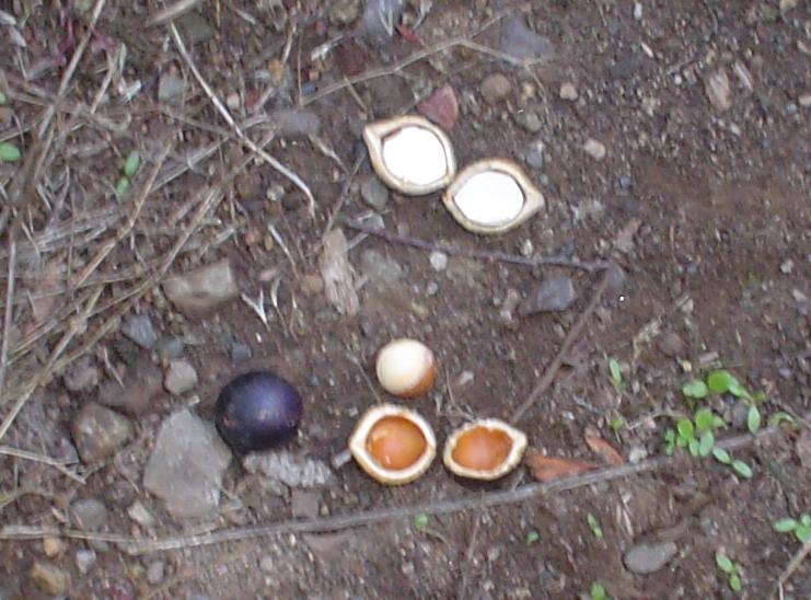 Chilean hazelnuts